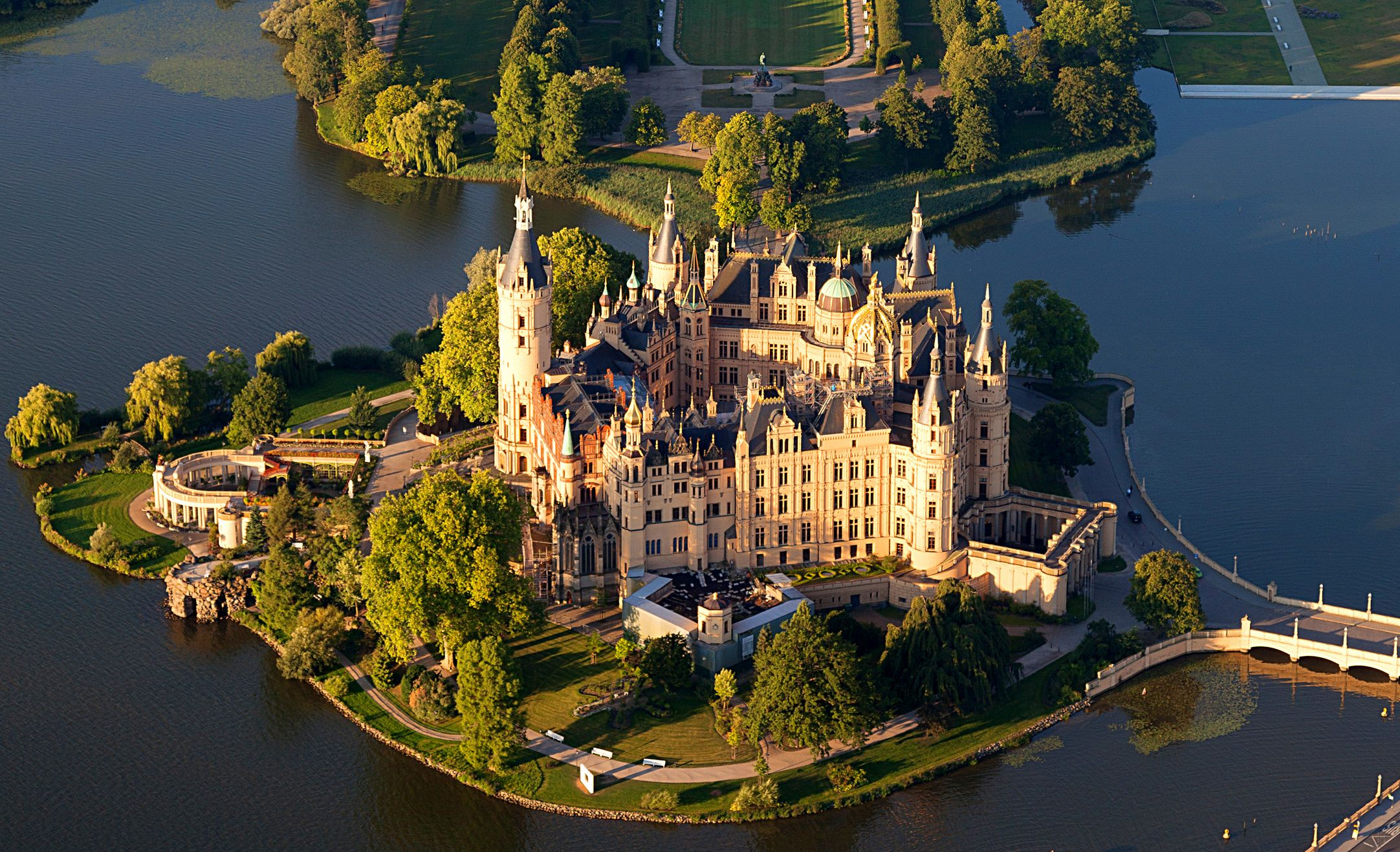 Schwerin Palace on its island at Lake Schwerin, aerial view